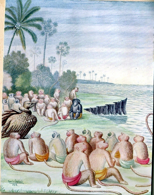 Hanuman, Jambuvanta and Angada went southwards and reached the southern ocean in search of Sita. Sampati, brother of Jatayu lived there. He had spotted Rawana carrying Sita towards Lanka, and told the team of the possibility of Sita's imprisonment. The news was quite encouraging. All agreed unanimously that Hanuman alone was capable of crossing the ocean and bring back Sita.